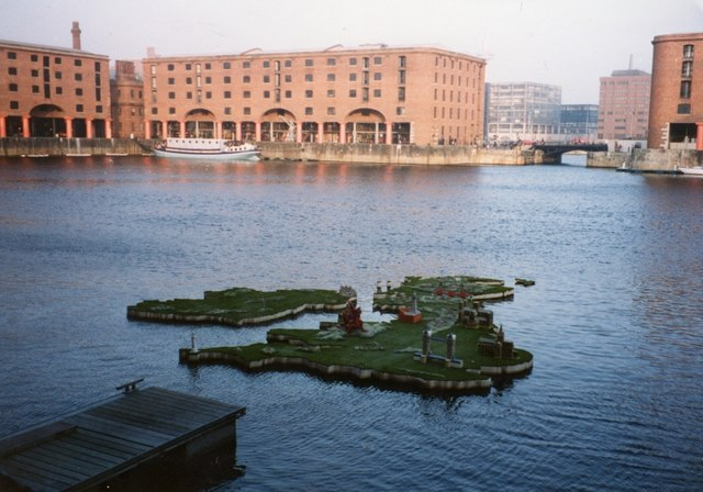 Albert Dock, Liverpool This was the floating map used by the weather forecaster on 'This Morning' on Granada TV.